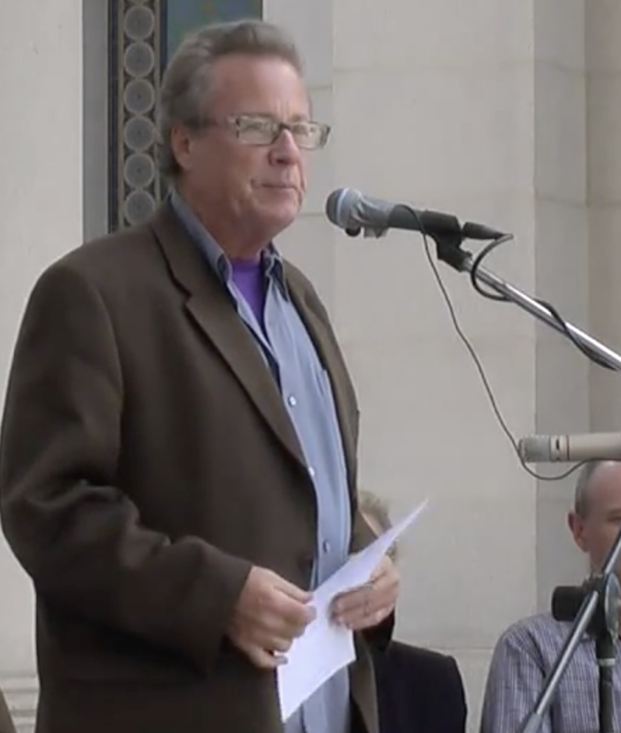 Actor John Heard speaking at Los Angeles City Hall at a 9/11 Truth event, 2010